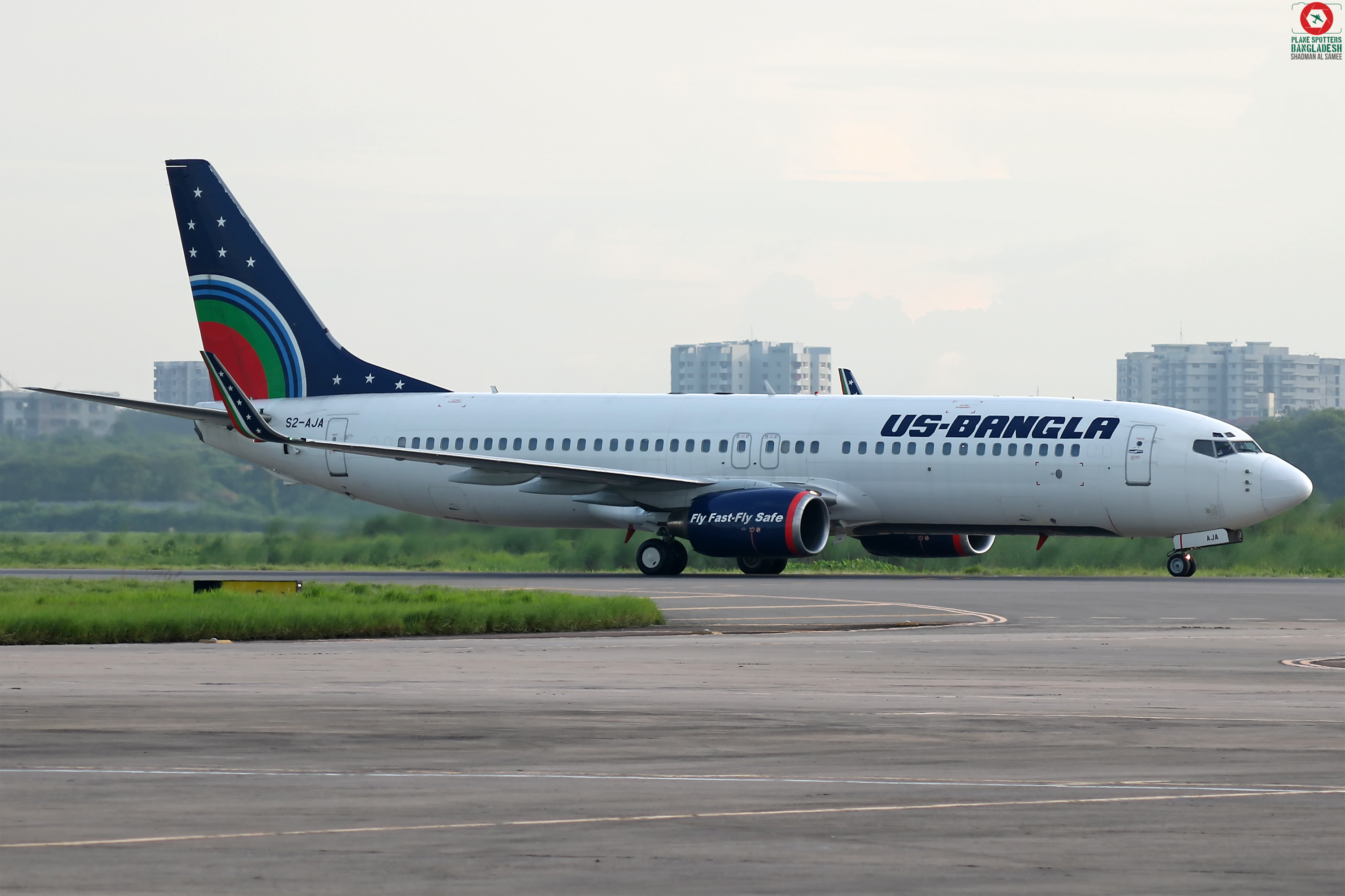 VGHS 2018: Shot from laast August; S2-AJA made an emergency landing at CGP earlier today after nose gear failed to extend while conducting a flight to CXB as BS141. Fortunately no one was hurt, and the crew did a bloody good job while executing the landing. [0]=68.ARDEBPLZmLzLL9jCpN4X8e80dbEVzeHD7YO9fW45kKnFyueAWDz7yGe8Hz5vBX2nvq1mdX66YynNI3r57f5TiG6lzrrPDZEc1wc2VJlbu_vFJ6nGdFMG-SegSTbiAQxWdQBTlNpcDmh6a2FMbXgKs2RLnlljtDfkNzB5uspK_4bW818XJODajw&__tn__=%3C-R